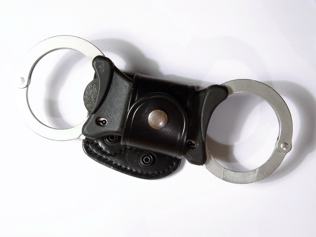 Hiatts Speedcuffs in holster, as used by UK police.